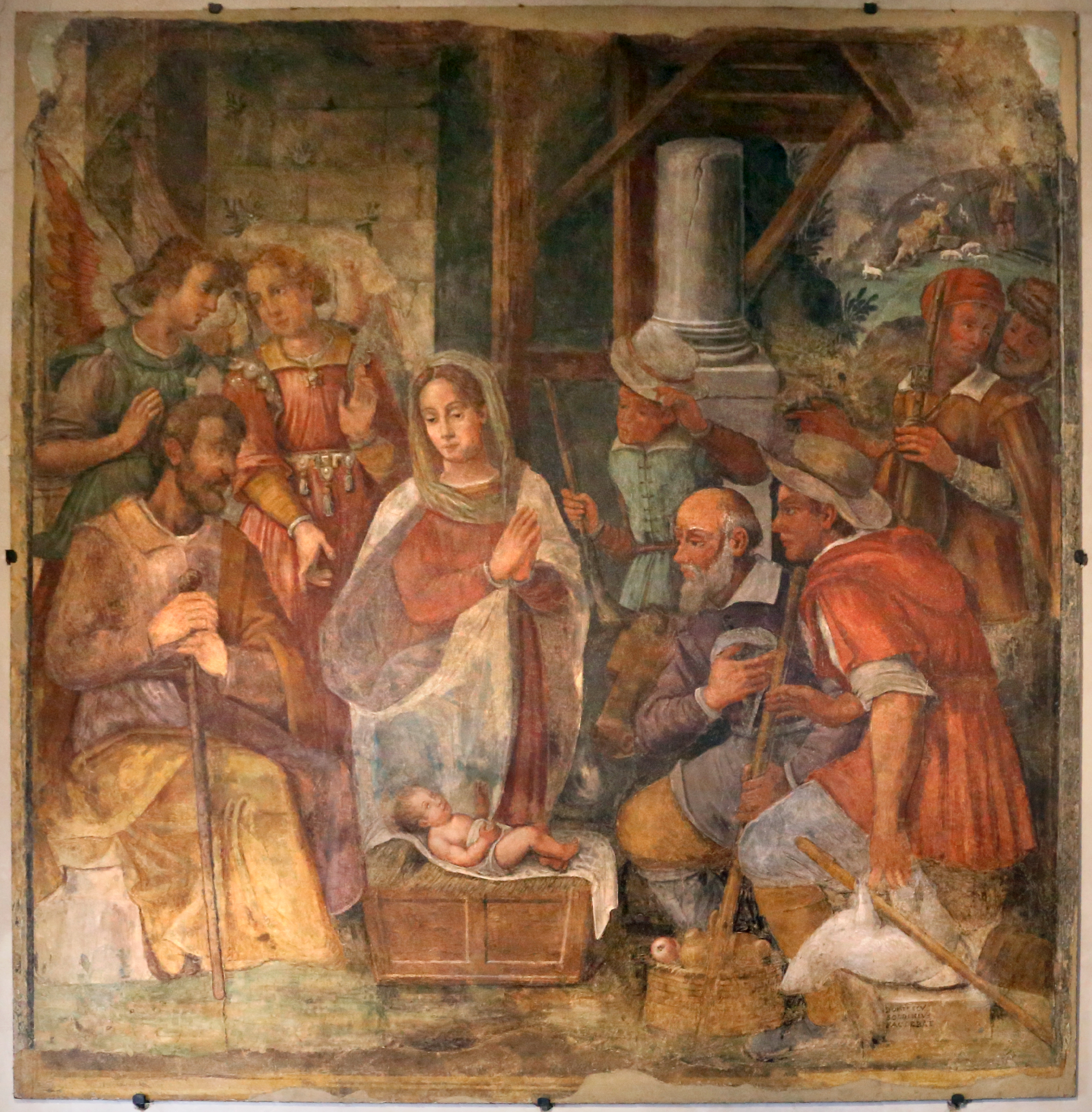 Convent of Santa Croce (Florence) - Ala del Noviziato